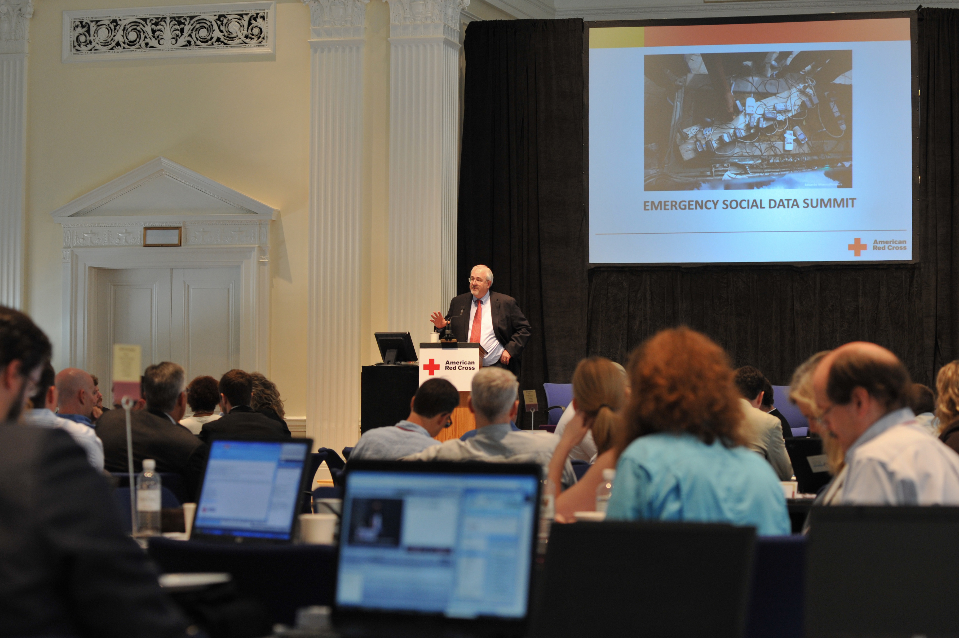 Washington, DC, August 12, 2010 -- FEMA Administrator W. Craig Fugate speaks at a Red Cross seminar on using social media during disasters. FEMA/Bill Koplitz